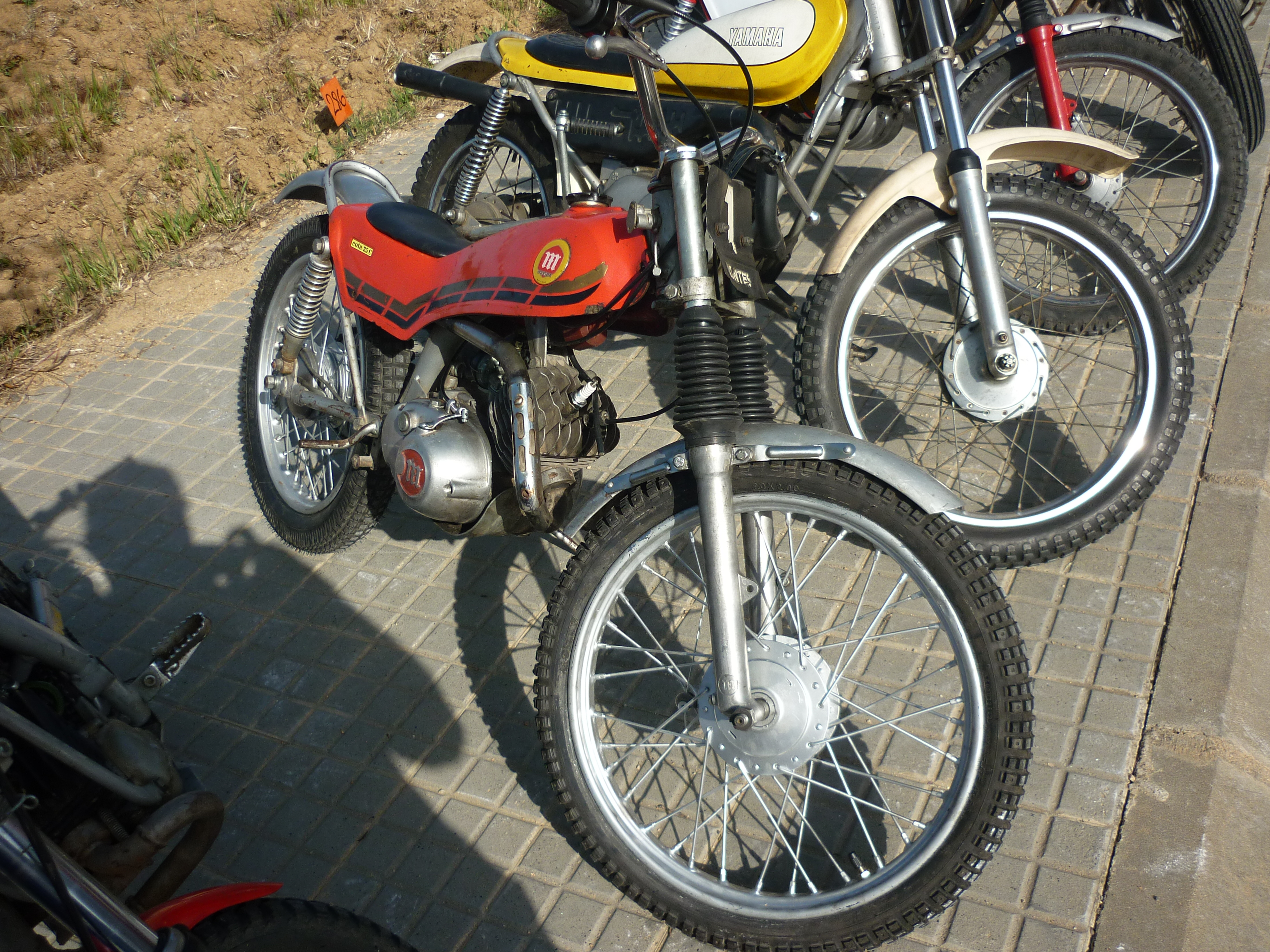 In red: Montesa Cota 25 C, 1978